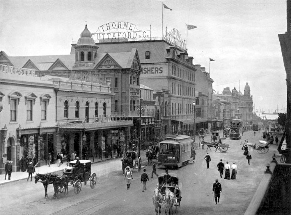 Original caption reads: "View of Adderley Street, Cape Town from Longmarket Street. This thoroughfare, which one might term "the leading street of South Africa", is thronged during the greater part of the day by a busy crowd of shoppers and pedestrians. The shops are for the most part situated on the north side of the street , and are decked with all the latest novelties from Europe. Electric trams start from the centre of Adderley Street for all parts of the town and suburbs, and are considered the finest and most complete "South of the line"."